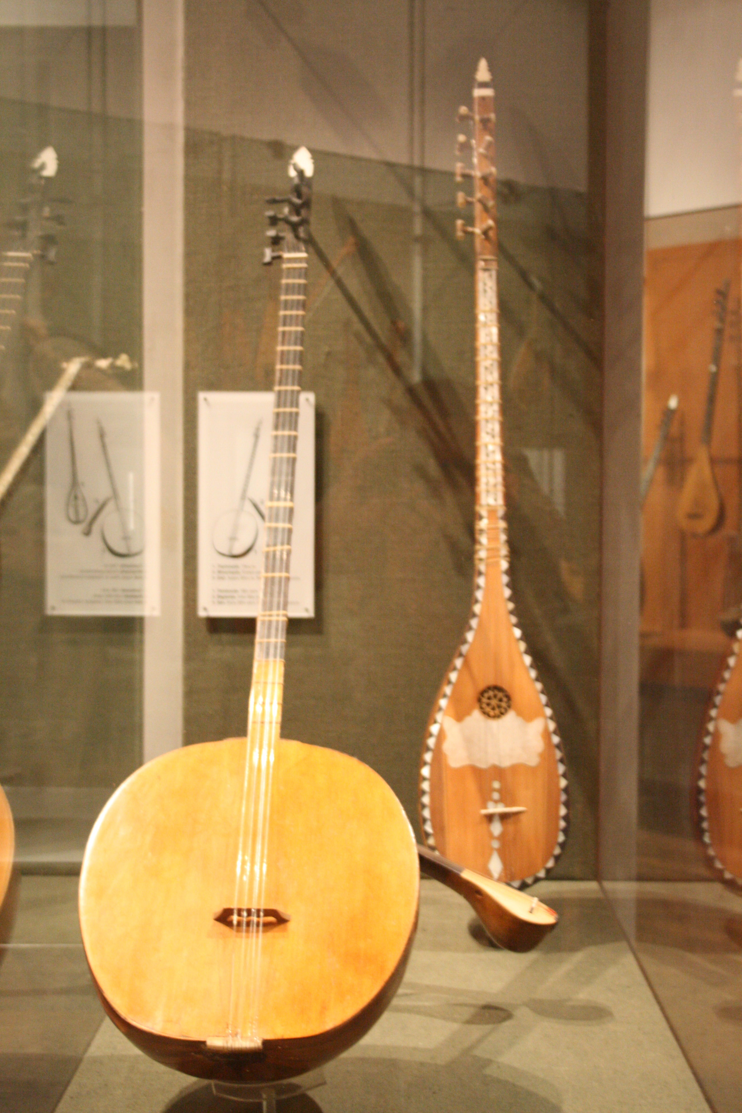 Some Greek string musical instruments in the Museum of Greek Folk Instruments in Athens. From left to right: Ottoman tambur, Greek Baglamas, Tambouras(?)